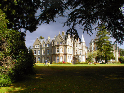 Brunel University London's former Runnymede campus, Surrey, UK.